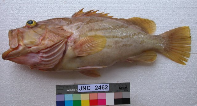 Epinephelus morrhua (Serranidae, Epinephelinae). Locality: External slope of the barrier reef near Passe de Dumbéa, off Nouméa, New Caledonia. Fork Length 558 mm, Weight 2,500 grams. Date: 2008-04-03.